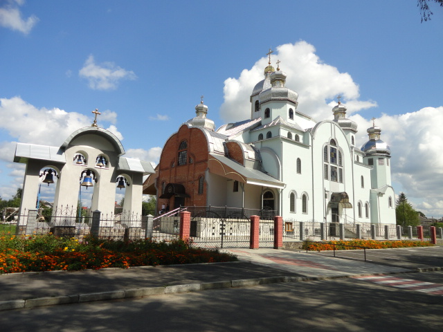 Church. Zhydachiv. Lviv region.